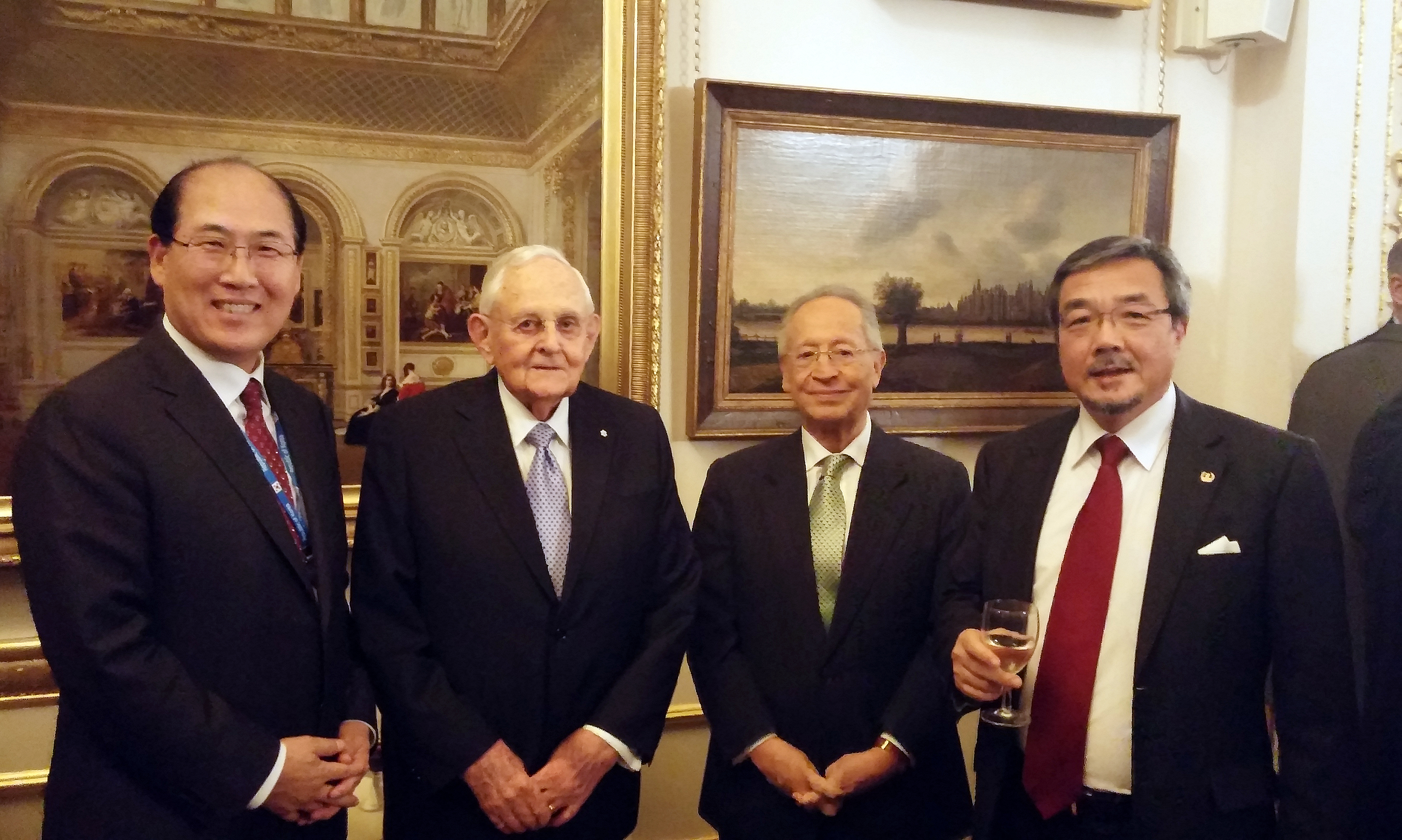 Left-to-right: Secretary-General elect Mr Kitack Lim, Secretary-General Emeritus Mr William A. O’Neil (IMO Secretary-General 1990-2003); Secretary-General Emeritus Mr. Efthimios E. Mitropoulos (IMO Secretary-General 2004-2011); IMO Secretary-General Mr. Koji Sekimizu (IMO Secretary-General 2012-2015).